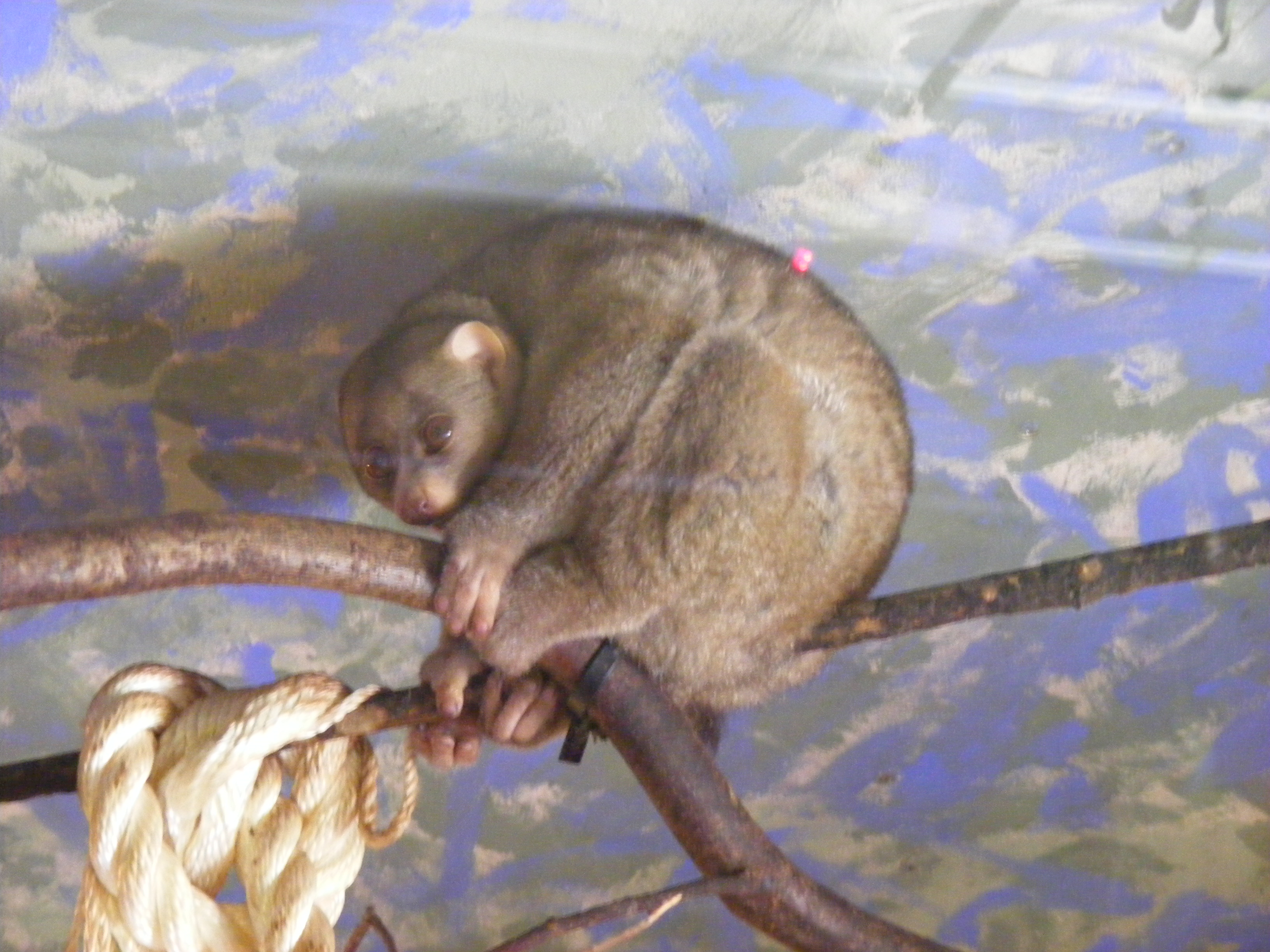 Potto - taken at Marwell Wildlife on 30th October 2010